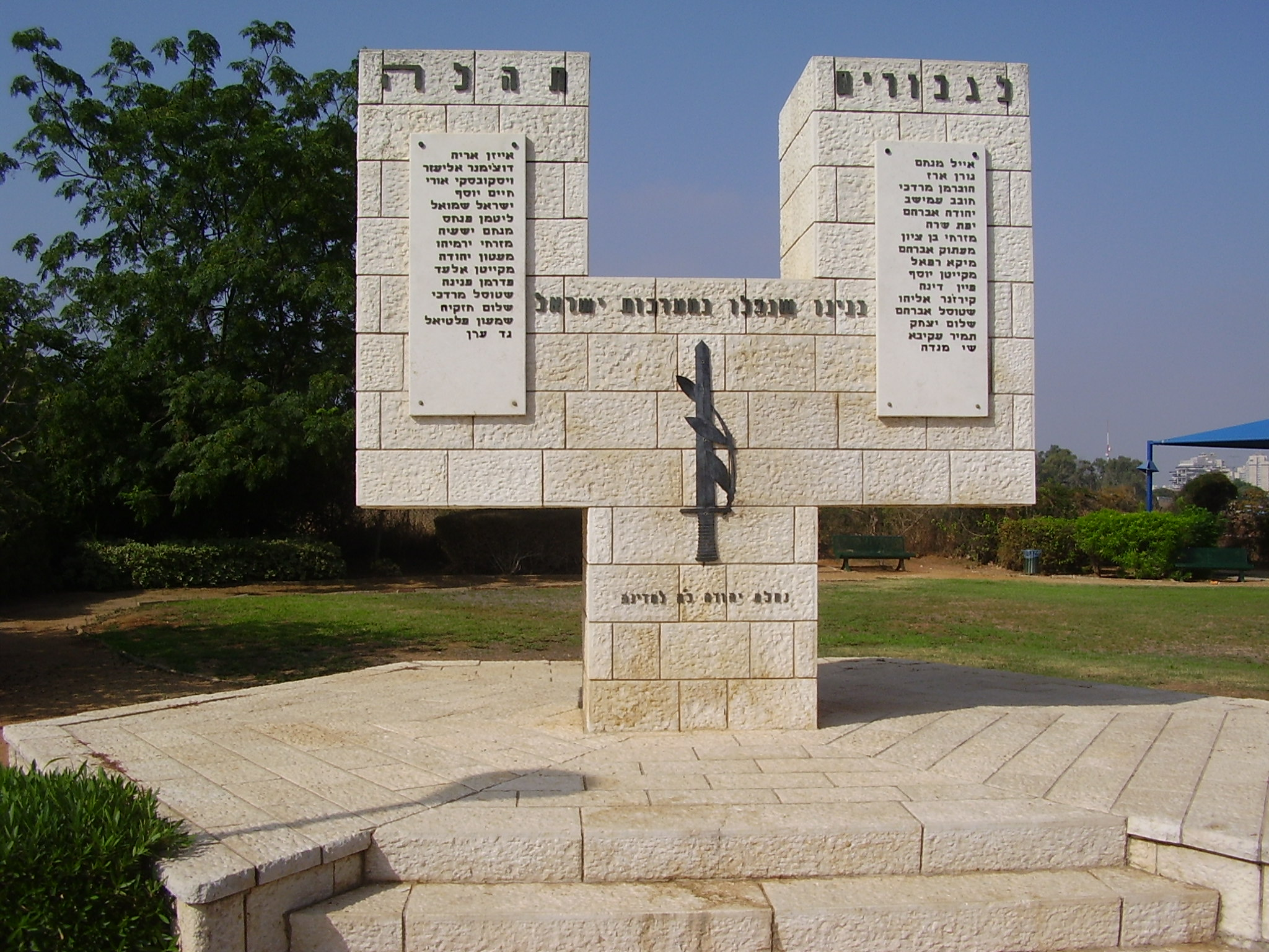 War memorial in Nahalat Yehuda, Rishon LeZion